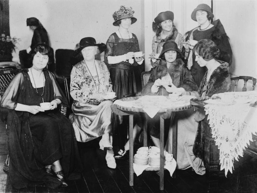 Reception tea at the National Womens [i.e., Woman's] Party to Alice Brady, famous film star and one of the organizers of the party.